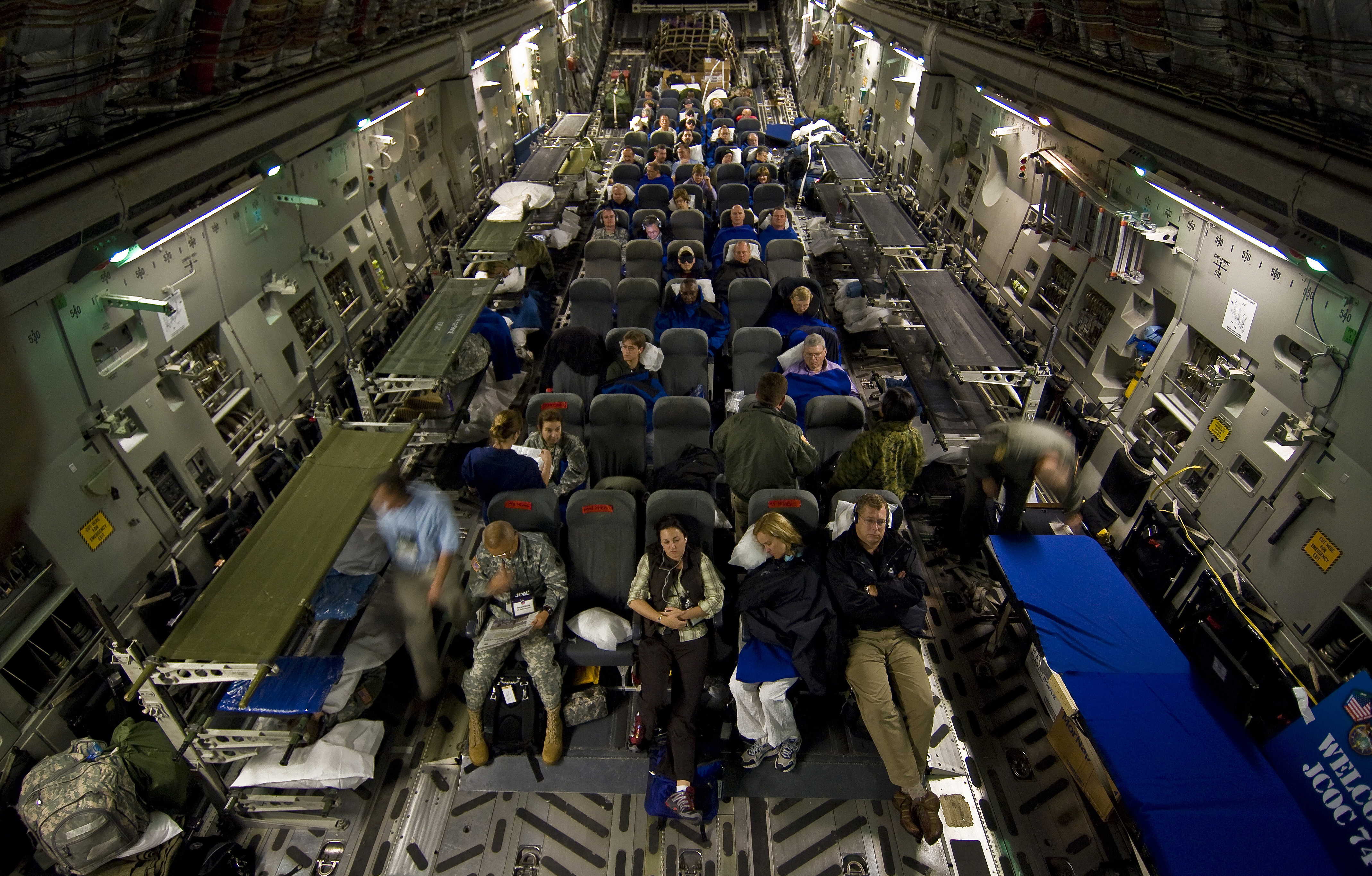 Members of the 74th Joint Civilian Orientation Conference rest while inflight over the Pacific in a C-17 Globemaster III based out of Charleston AFB, SC, enroute to Guam, Nov. 5, 2007. JCOC is a Secretary of Defense sponsored program for America's leaders interested in expanding their knowledge of the military and national defense. JCOC is the oldest existing Pentagon outreach program and has been held more than 73 times since its inception in 1948.